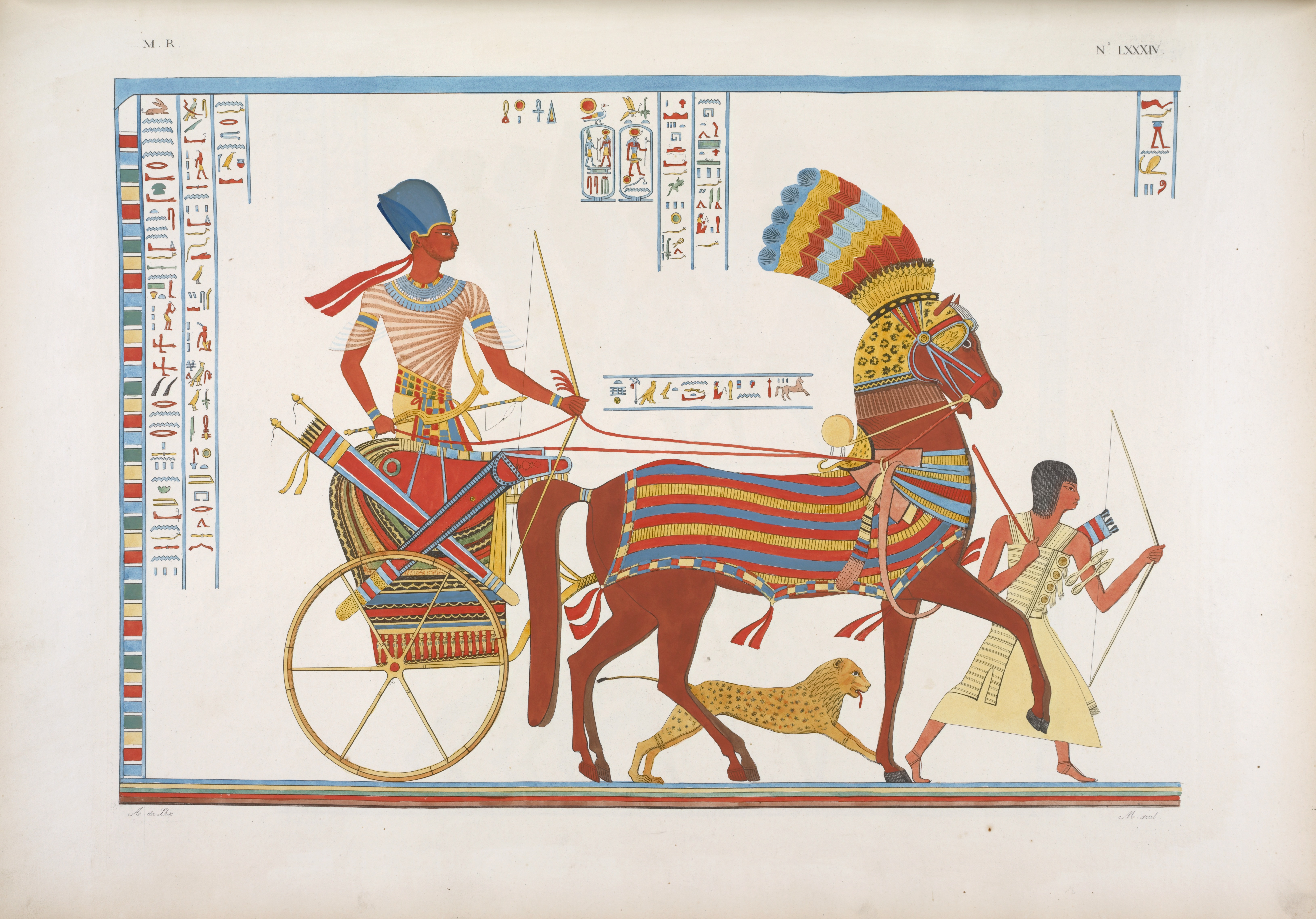 Ritorna trionfante sul carro, preceduto da schiavi africani.